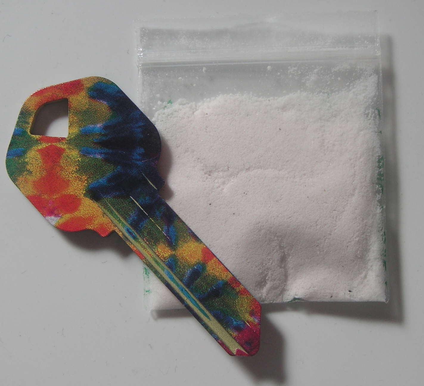 A sack of MDMA or "Molly" with a key that is used to scoop out doses and subsequently ingested through the nasal passages.